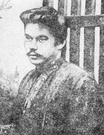 Nikifor Vilonov's portrait